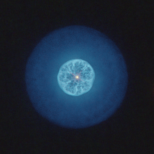 Do perfection and simplicity belong together in a harmonious marriage? IC 3568 is the planetary nebula representation of this idea. The simplicity of its form begets the perfection of its spherical shape. I'm not sure when it gained the name Lemon Slice Nebula but the most common image of this nebula is processed to look fluorescent lime green so that may have had something to do with it. Mine is blue to more closely match the processing I've done with the others. Keeping the OIII emissions (which this one shines so brightly in) solely in the blue channel leaves it a bit dark though so I let it spread to the green channel a little as well to brighten the image. Red: hst_06119_50_wfpc2_f814w_pc_sci + hst_08390_15_wfpc2_f658n_pc_sci Green: hst_08390_15_wfpc2_f555w_pc_sci Blue: hst_08390_15_wfpc2_f502n_pc_sci North is up.